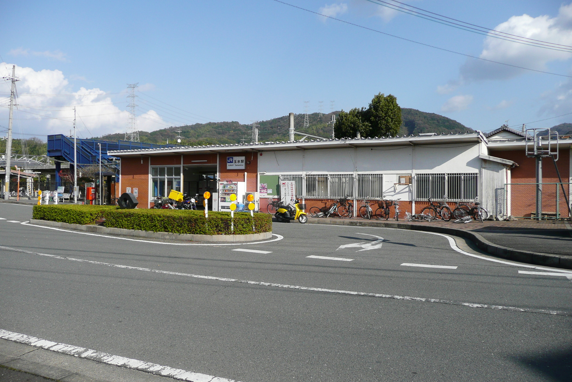 West Japan Railway Nara Line Tamamizu Station